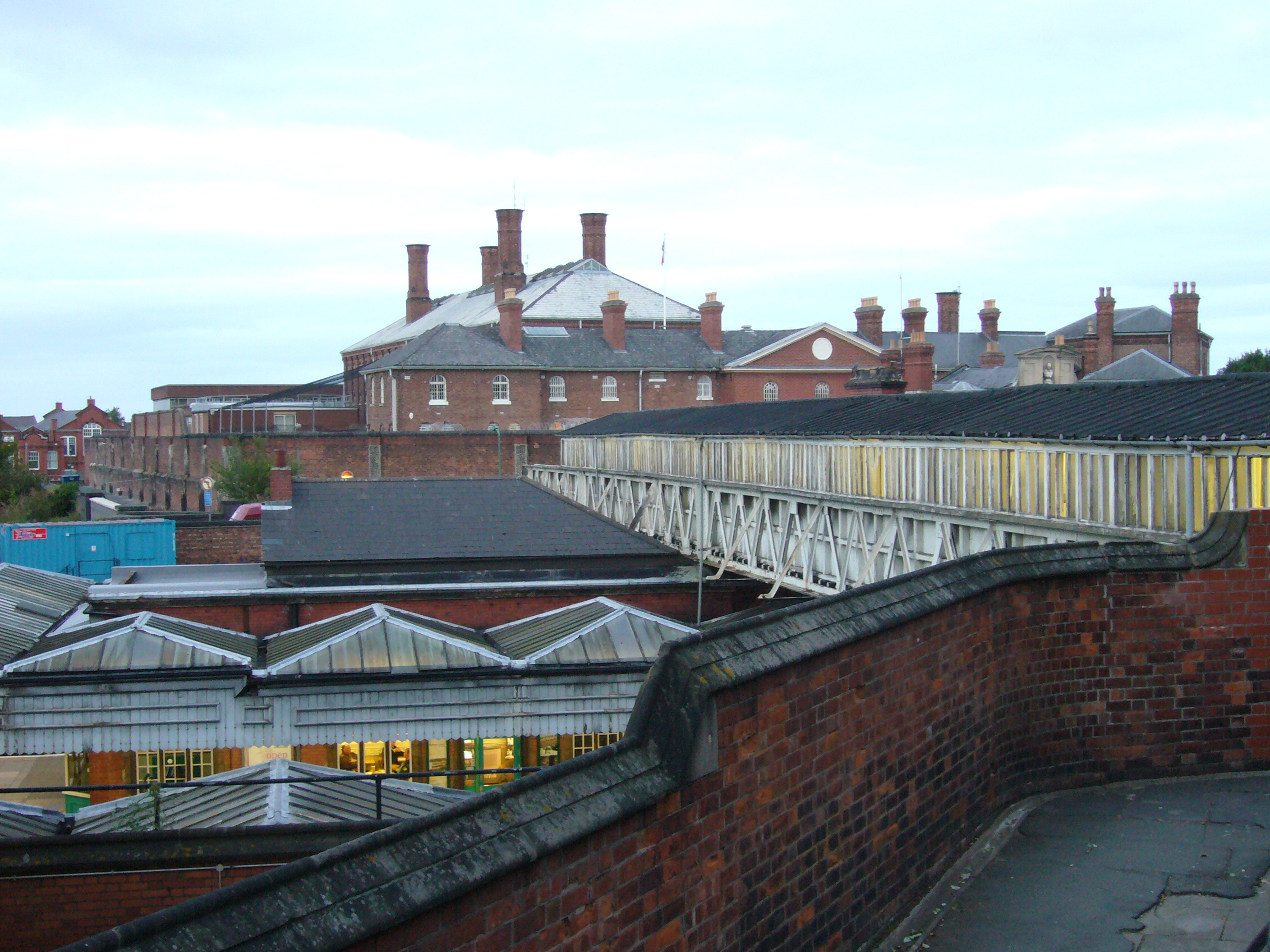 View of Shrewsbury Prison from the adjacent railway station bridge.